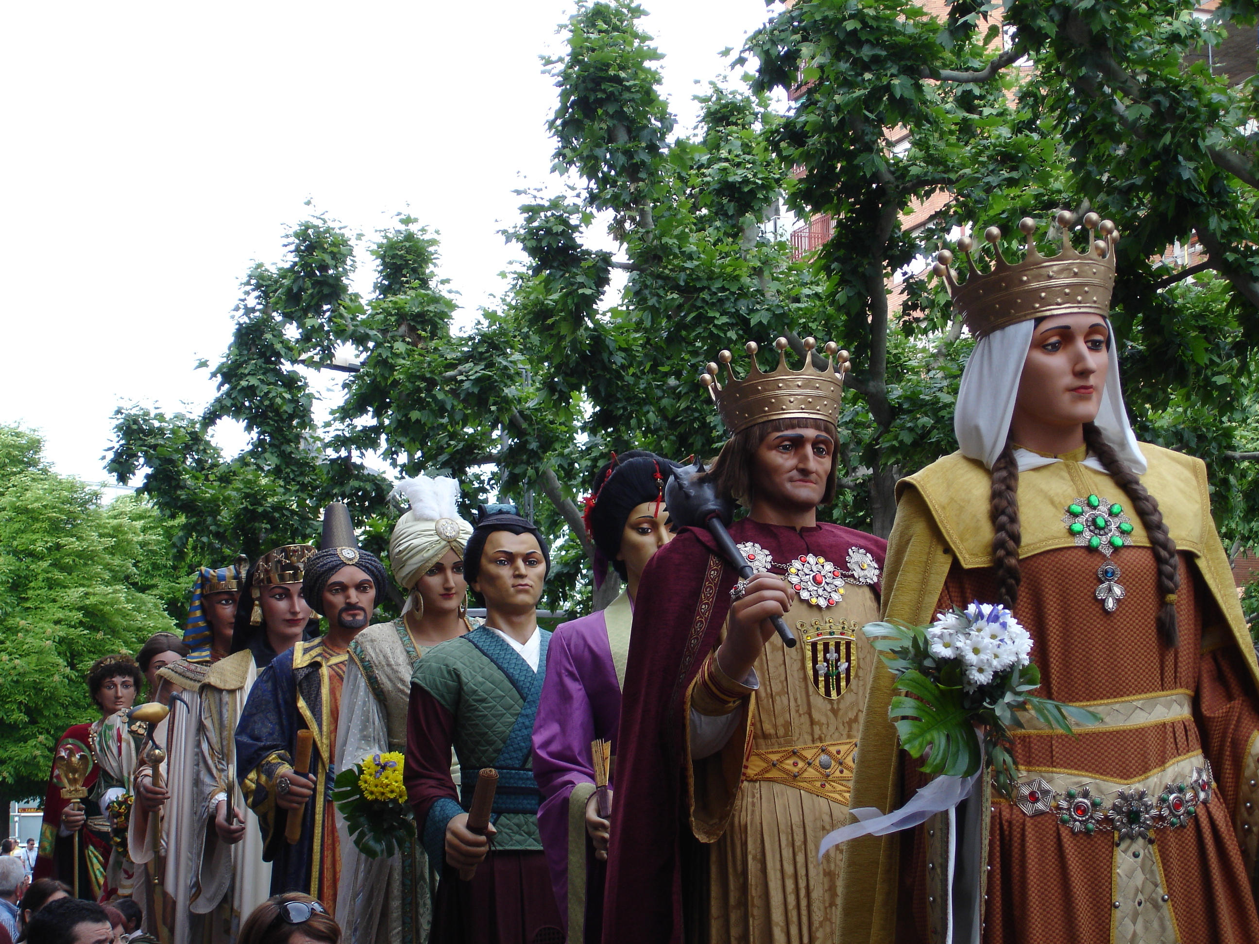 The Giants of Lleida (Catalonia, Spain)